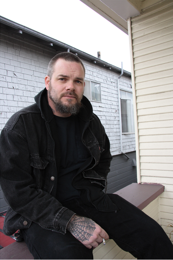 Scott Kelly in West Oakland